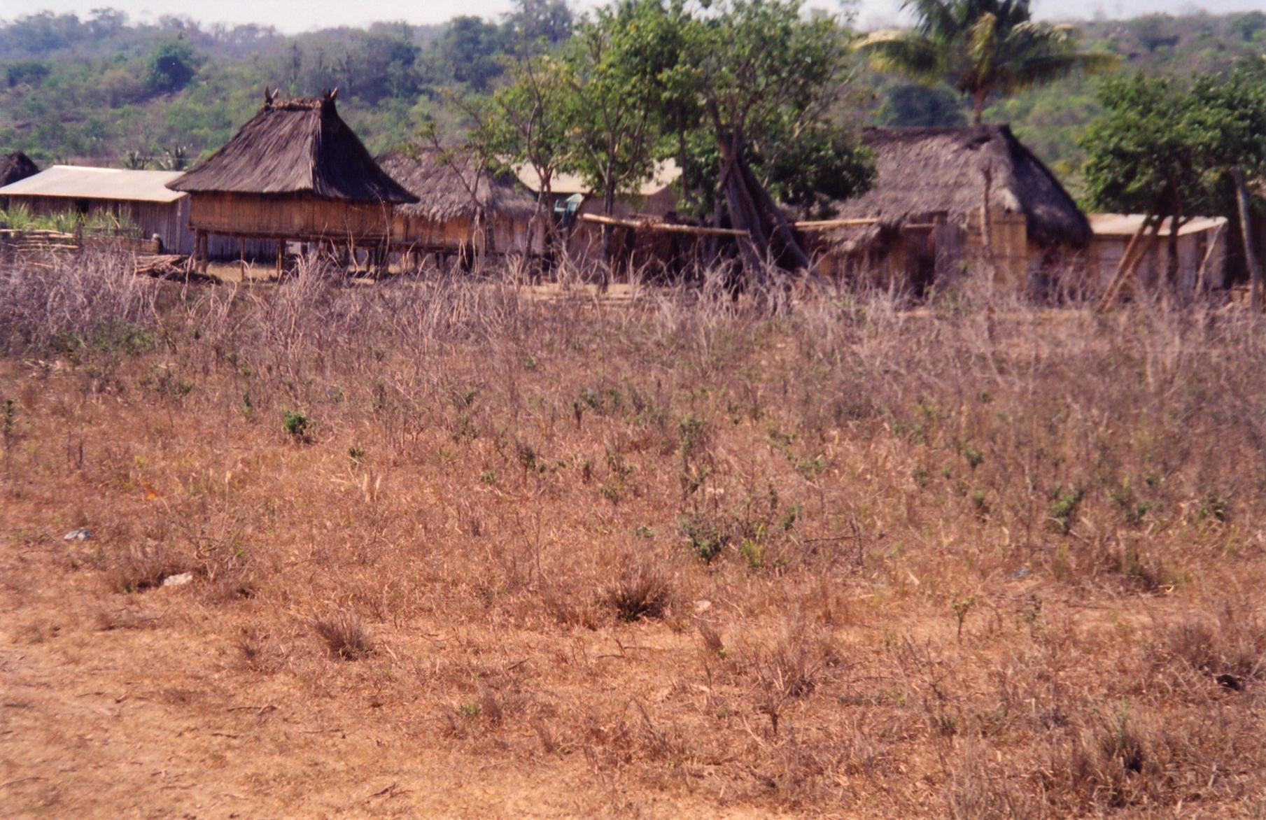 Clearing new garden Mehara